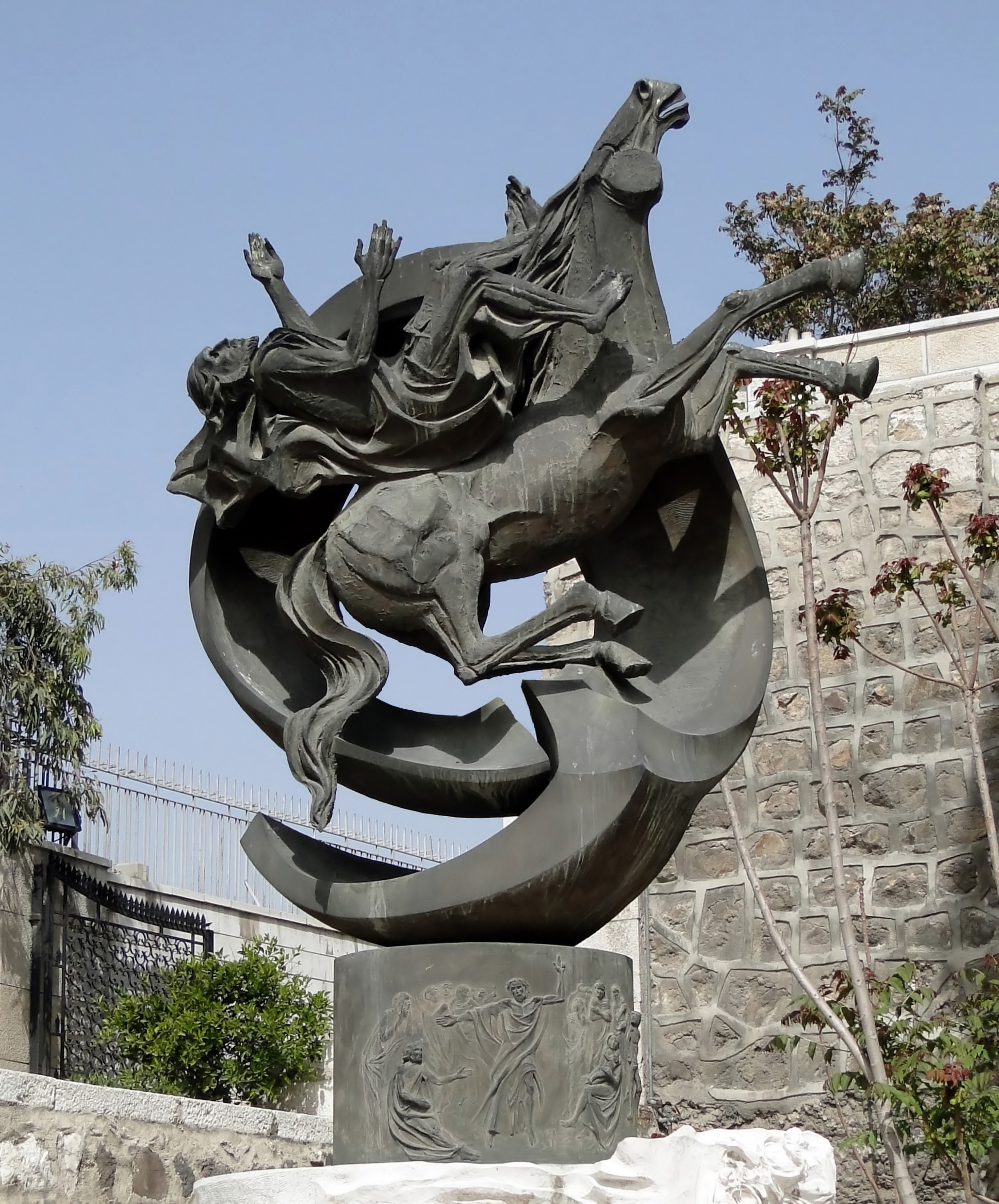 Statue of Saint Paul at Bab Kisan, Damascus, Syria. Statue of Paul as he was struck down by the light, on the road to Damascus (Acts 9:3). The beginning of the conversion of Paul.